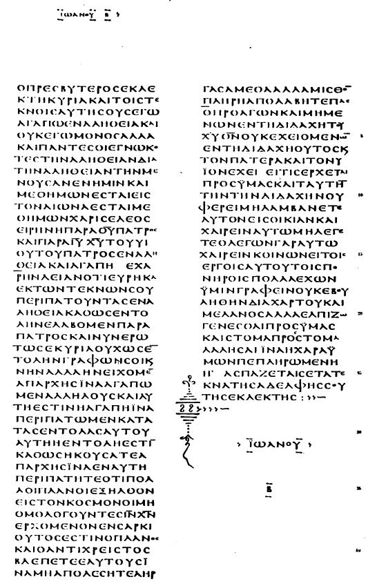 reduced quality scan of scan of scan of 2 John in Codex Vaticanus